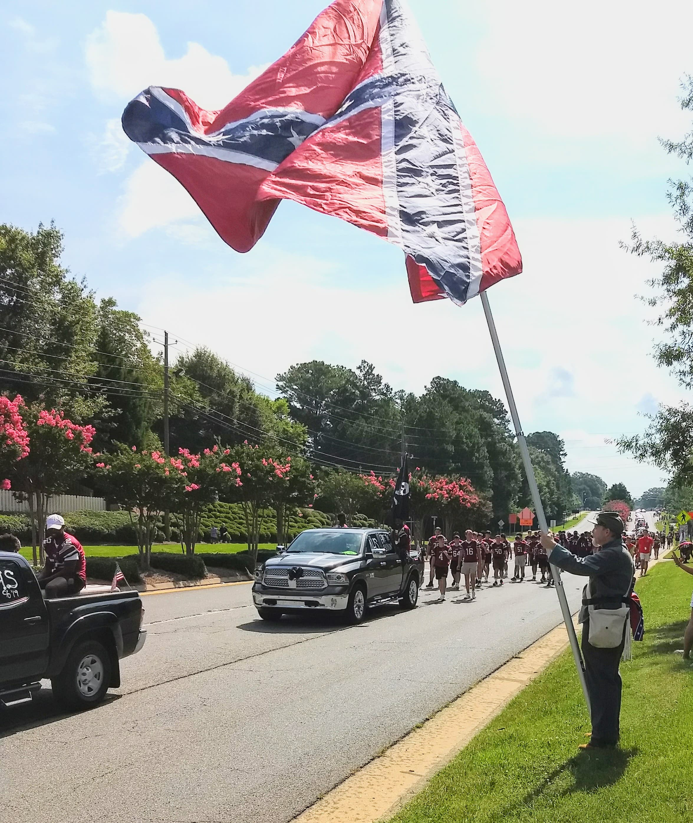 Georgia Flagger with a large Confederate battle flag on a 20-foot pole at Alpharetta Old Soldiers' Parade, Alpharetta, Georgia on 4 August 2018. Courtesy Georgia Flaggers, used with permission. All rights reserved.